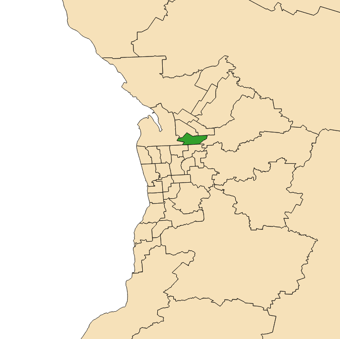 Electoral district 2018 boundaries shown in green